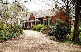 Glencannon